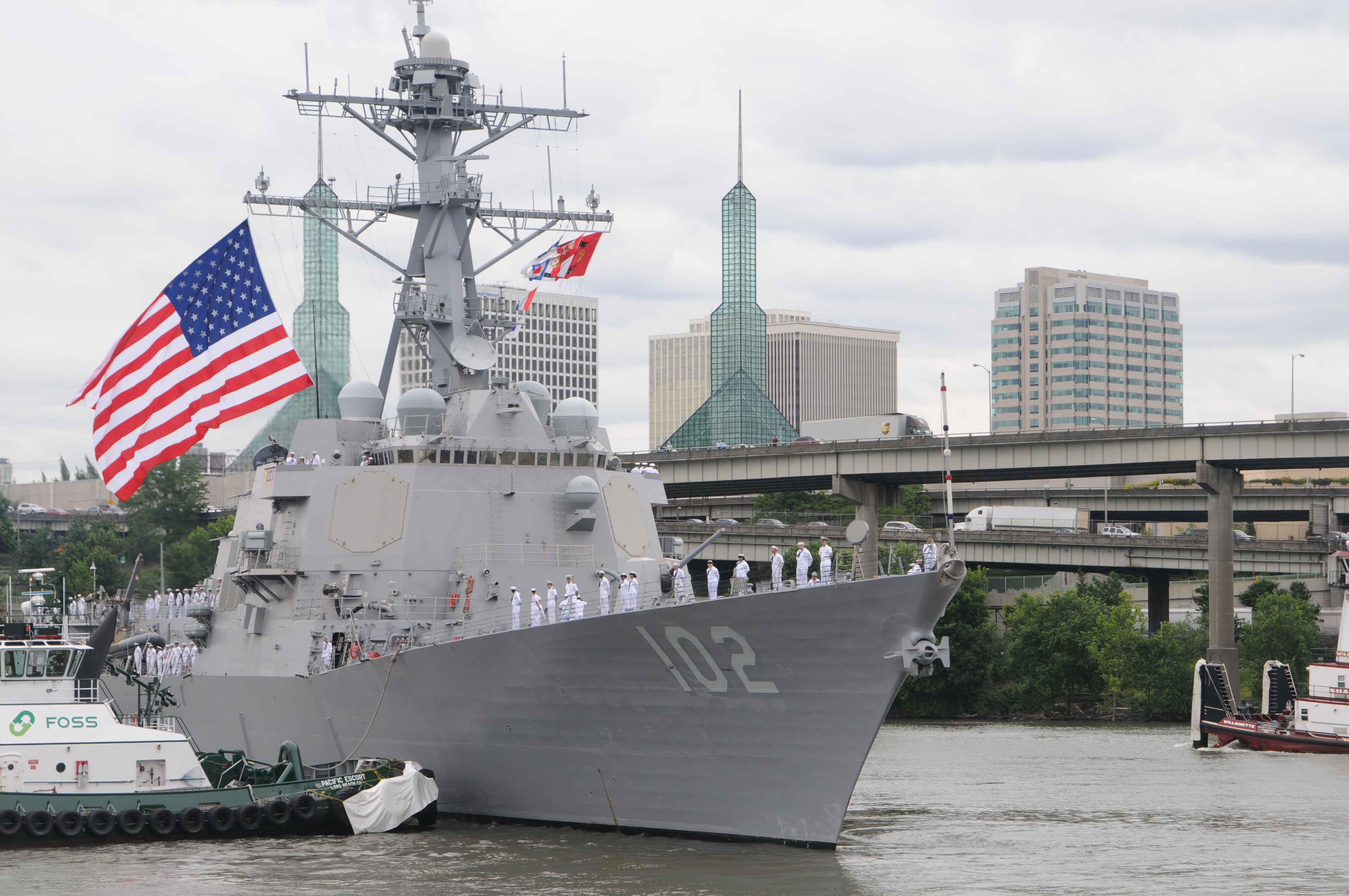 Sailors man the rails aboard the guided-missile destroyer USS Sampson (DDG 102) as the ship arrives to help celebrate Portland Fleet Week festivities during the city's 103rd annual Rose Festival. Navy warships have been coming to the City of Roses since USS Charleston's visit in 1907, and are considered a highlight of the festival. Assisting Sampson is the Foss tug Pacific Escort.